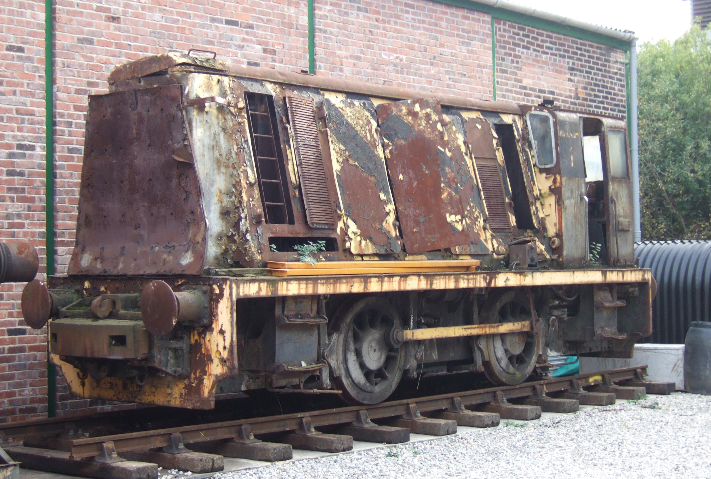 Yorkshire Engine Co. 0-4-0DE 2481 of 1951 at Kelham Island Museum, Sheffield. 16th October 2005 Photographer - A.M.Hurrell Camera - Fuji FinePix F10 Modified - Trimmed and file size reduced using Adobe Photoshop 5.0LE